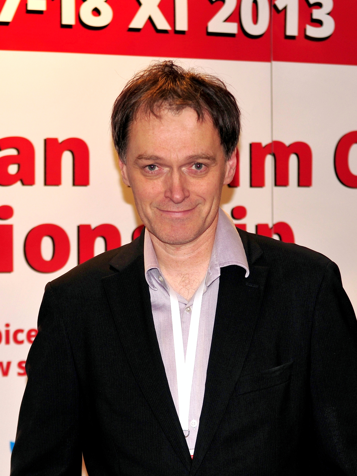 GM Helgi Ólafsson, European Chess Team Championship Warsaw 2013